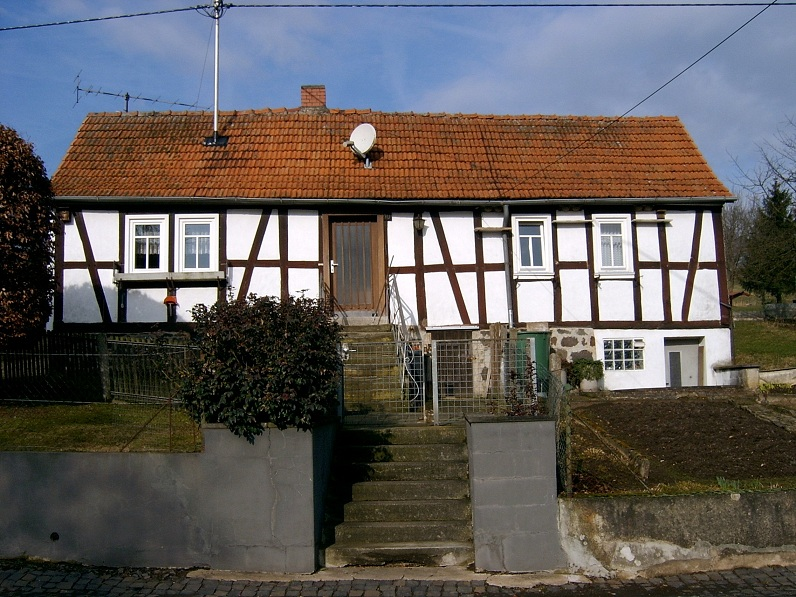 Old school building in Wuenschen-Moos, built in 1843, used by the school until 1922.